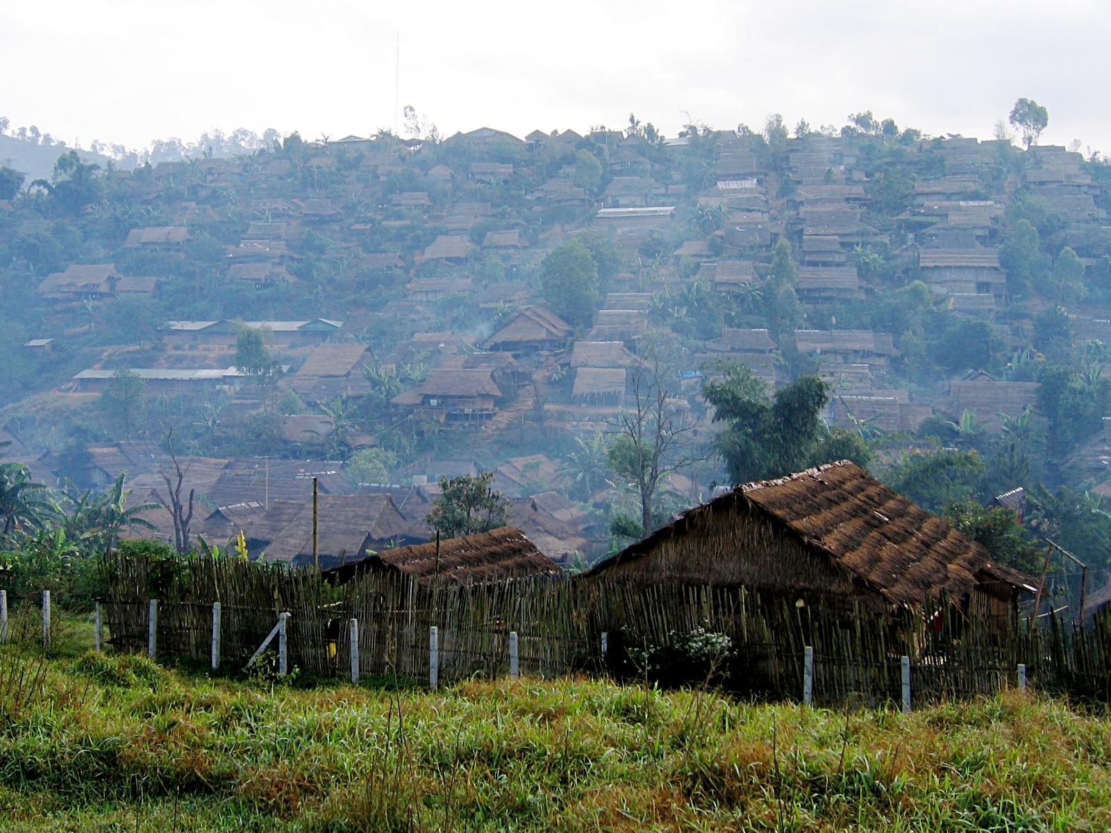 Um Piam refugee camp, Amphoe Phop Phra, Tak Province, Thailand